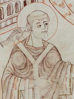 Pope Gregorius I dictating the gregorian chants (cropped from original)